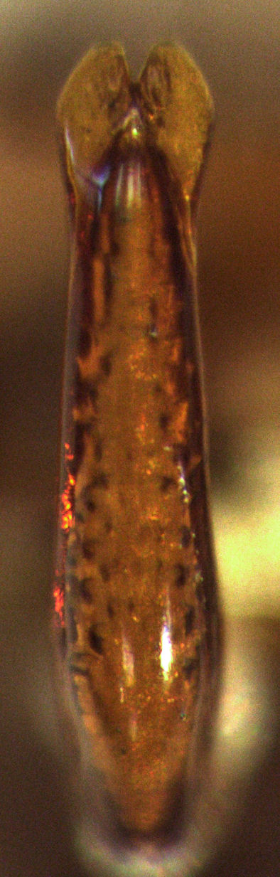 Adrastia angulifrons (aedeagus)